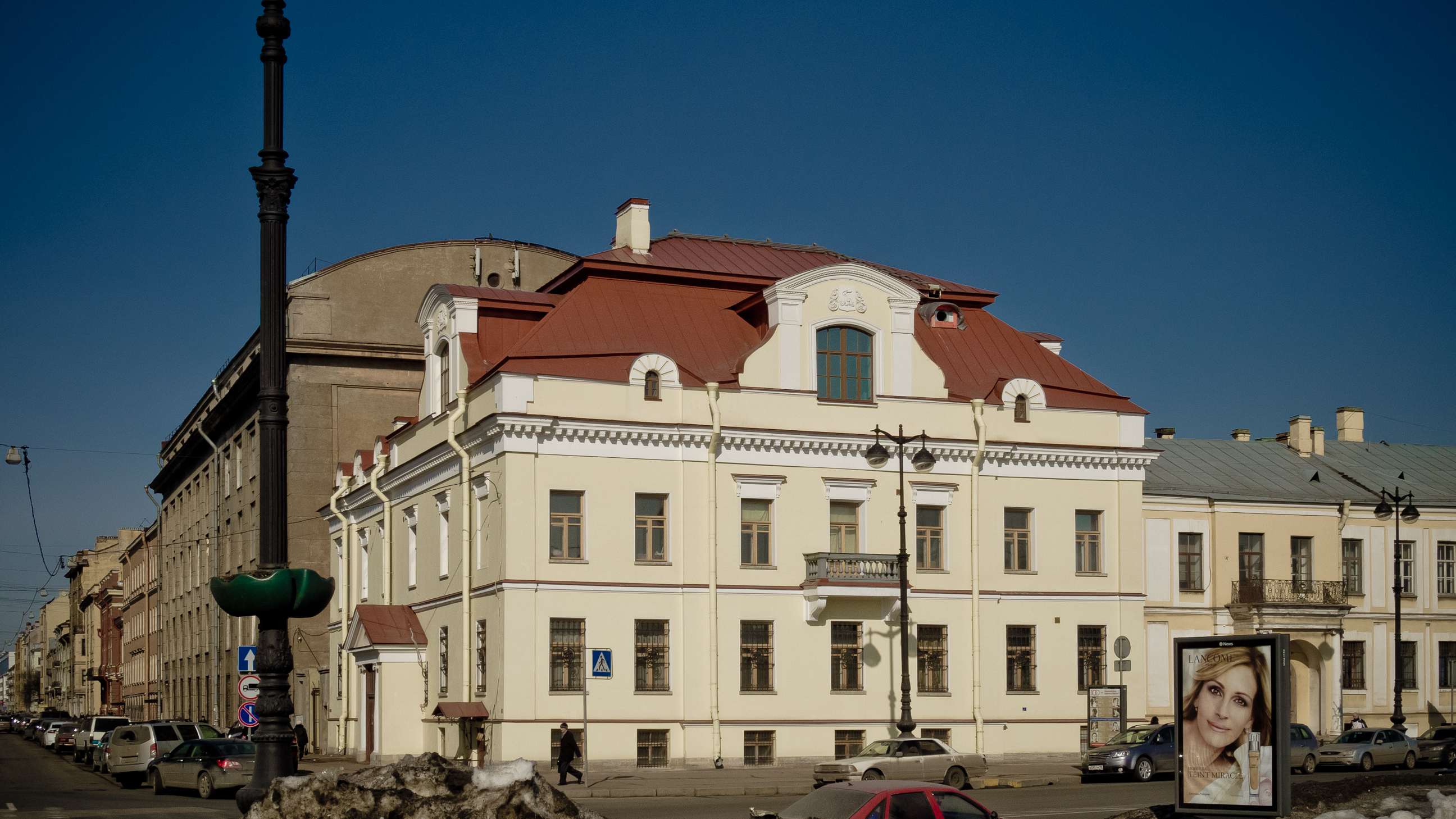 Botkin's mansion in Saint Petersburg